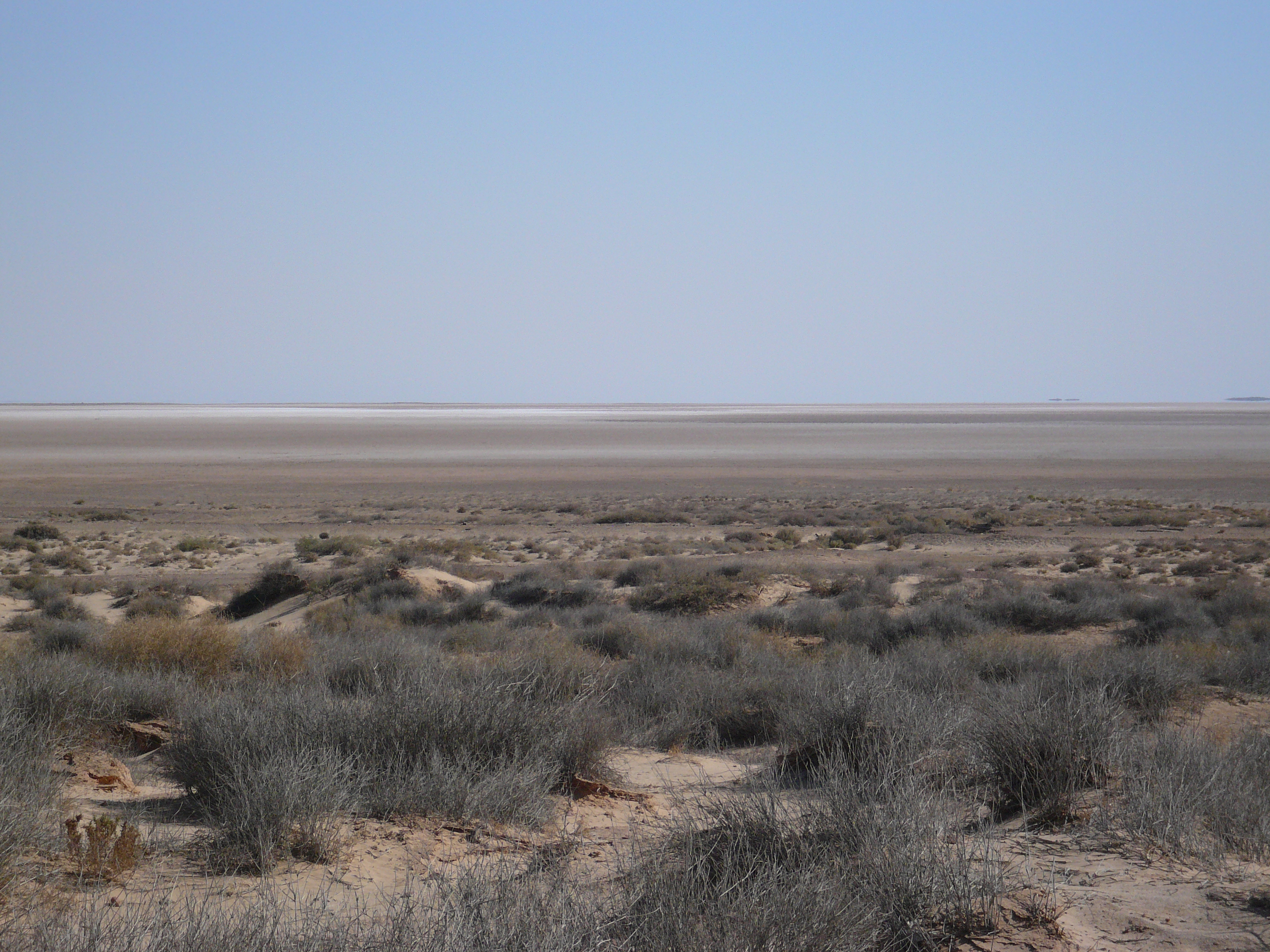 Outback Trip - Lake Eyre